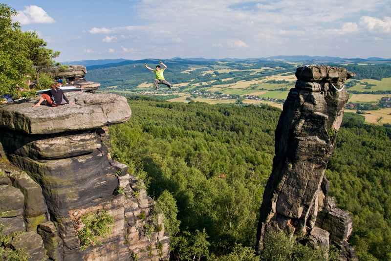 Highline between sandstone towers in Tisa, Czech Republic.